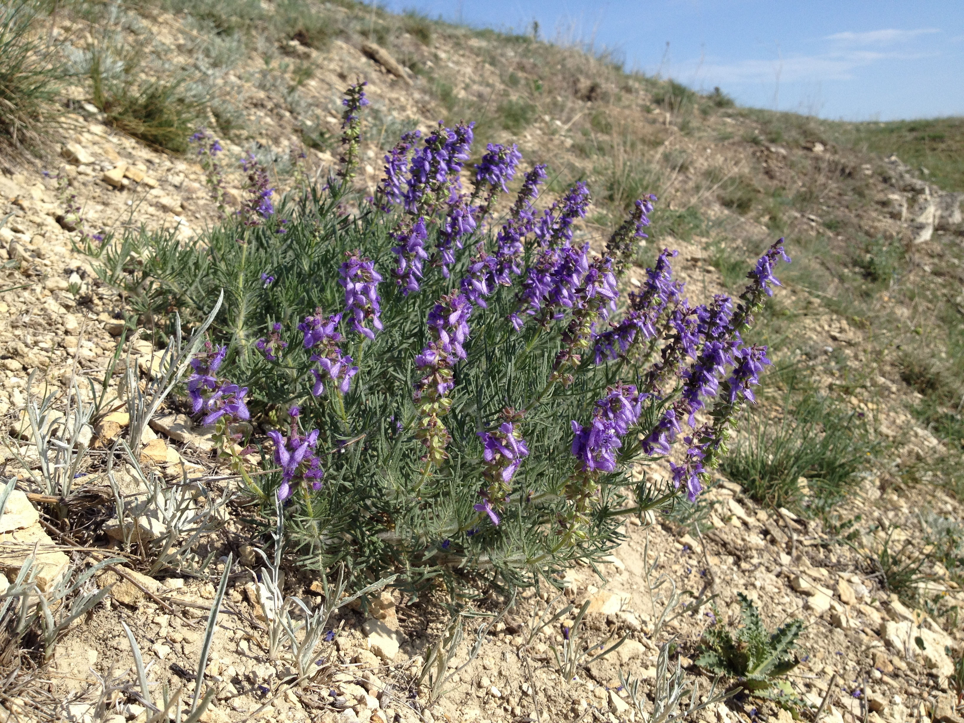 Close-up of Salvia jurisicii